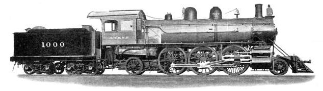 Builder's photo of Atchison, Topeka and Santa Fe Railway locomotive number 1000, built by Baldwin Locomotive Works in 1901. Used on the 1905 Scott Special.